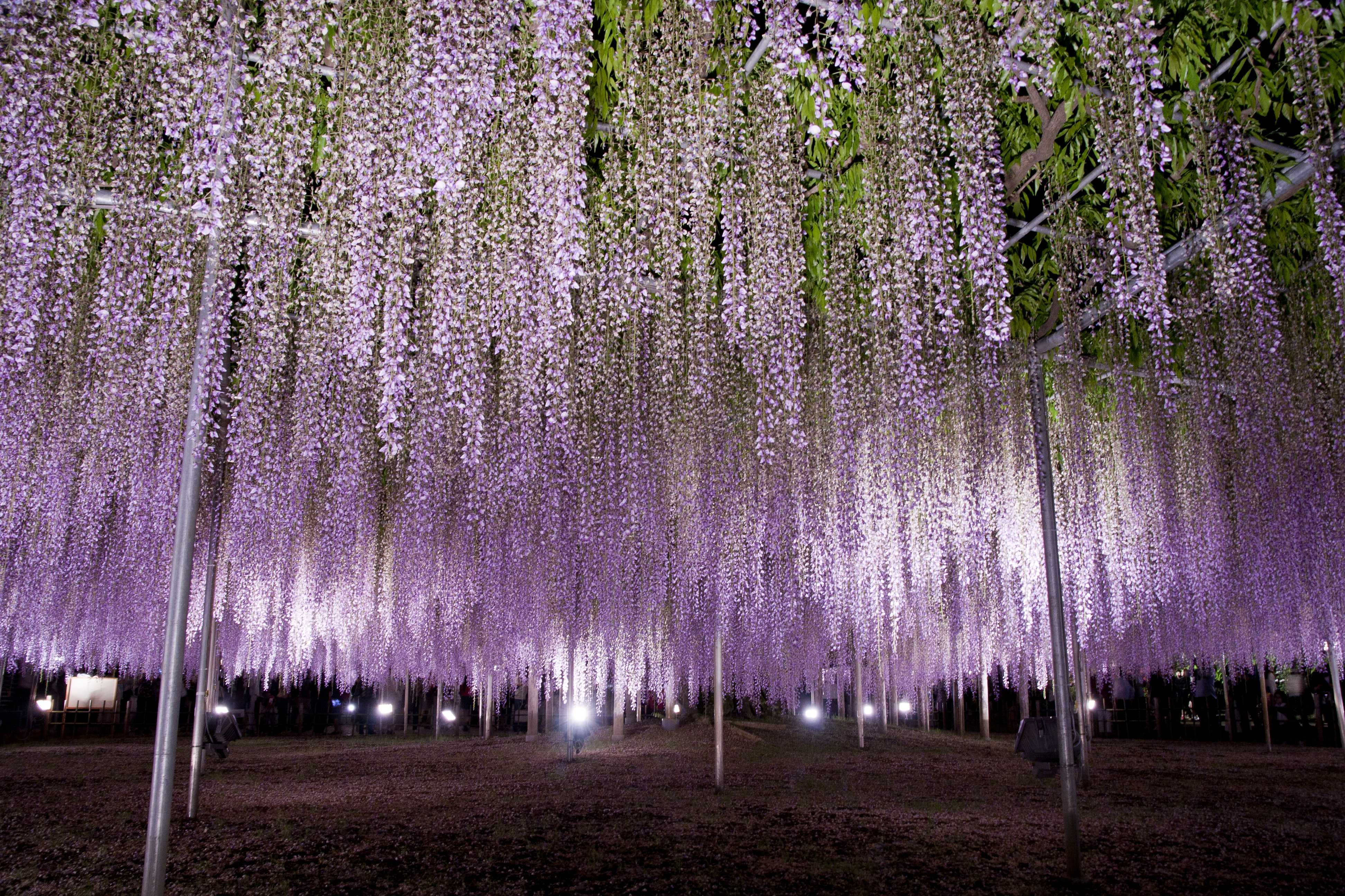 Wisteria trellis in Ashikaga Flower Park, Ashikaga City, Tochigi Pref., Japan